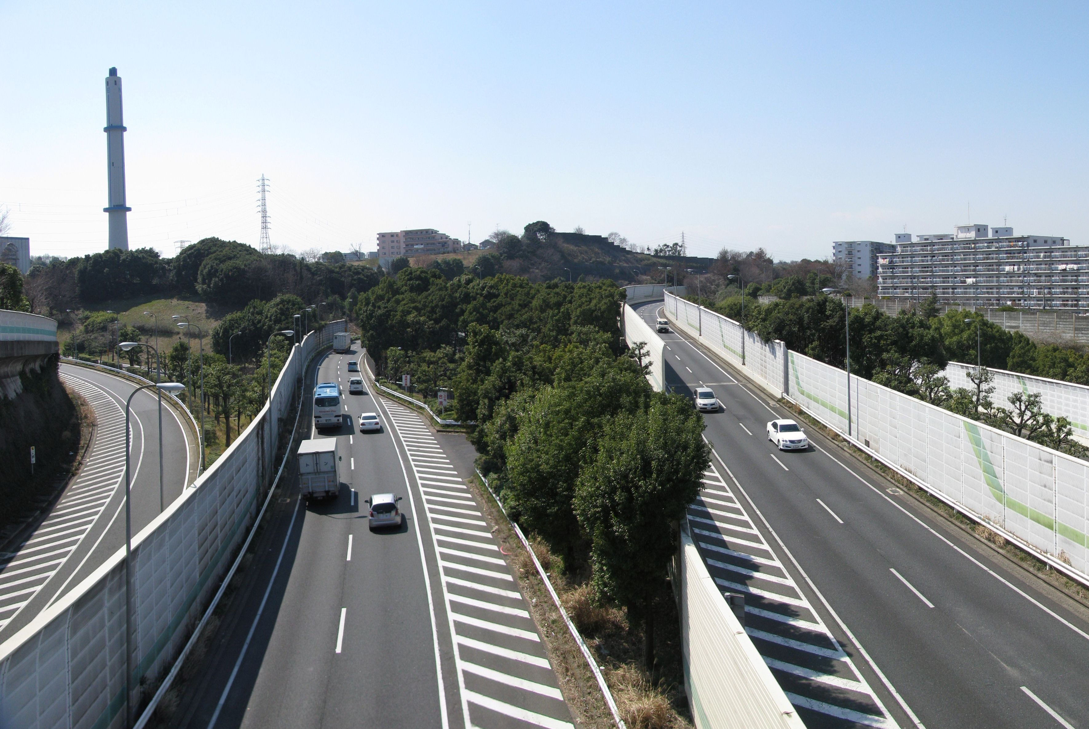 The Kariba junction is a cross of the Yokohama-Yokosuka Road with the Shuto Expressway K3 Kariba Route. This located is in Hodogaya-ku, Yokohama, Kanagawa, Japan.